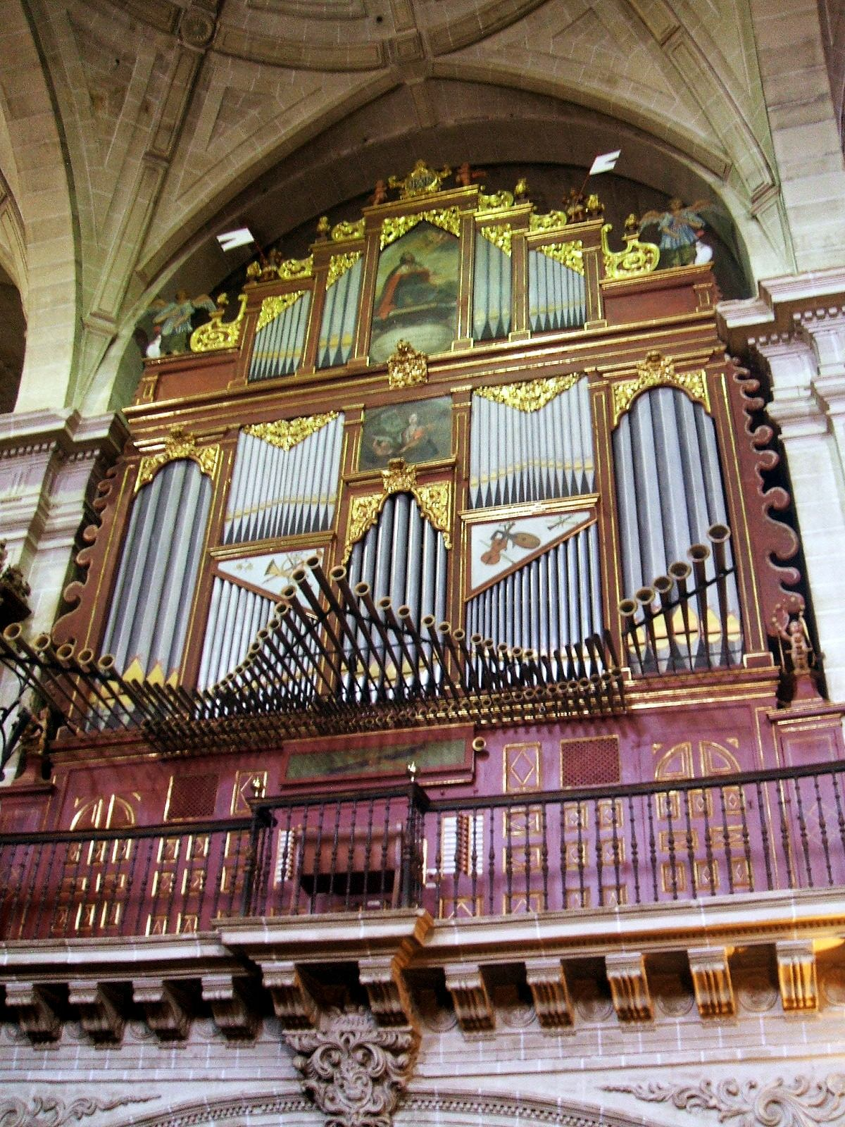 Órgano de la Iglesia parroquial de Nuestra Señora de la Asunción, Labastida, Álava, Euskadi, España.